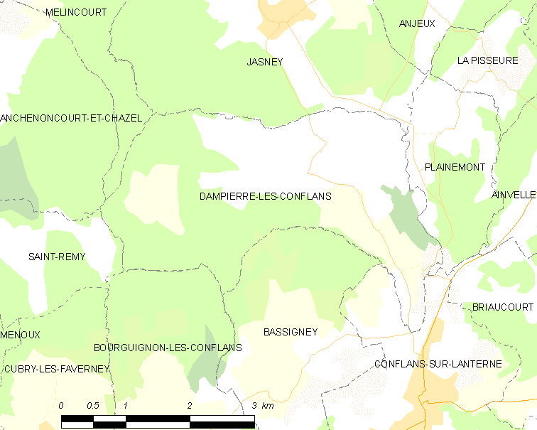 Map of French municipality